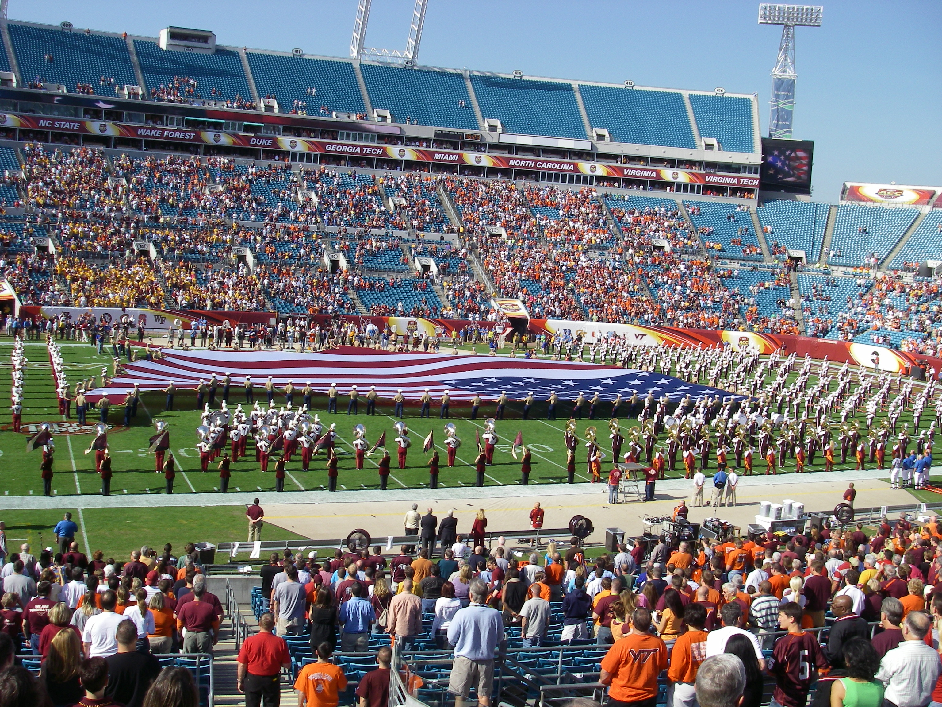 A giant American flag is stretched across the field during the playing of the national anthem prior to the 2007 ACC Championship Game.